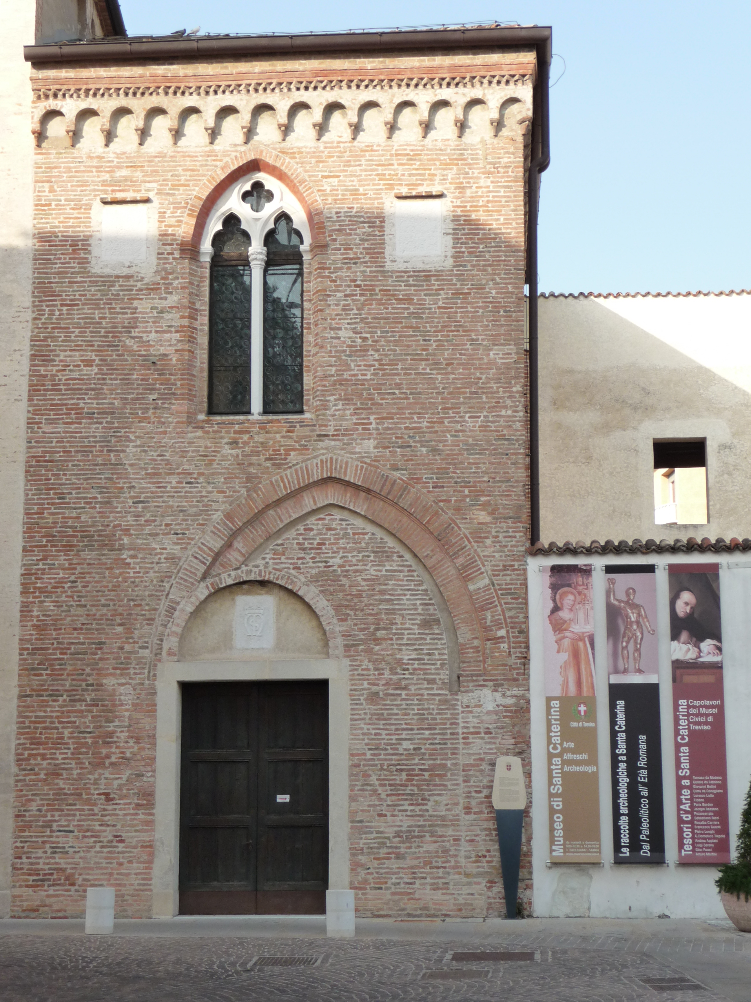 facade of the Cappella degli Innocenti, Chiesa di Santa Caterina, Treviso (IT)